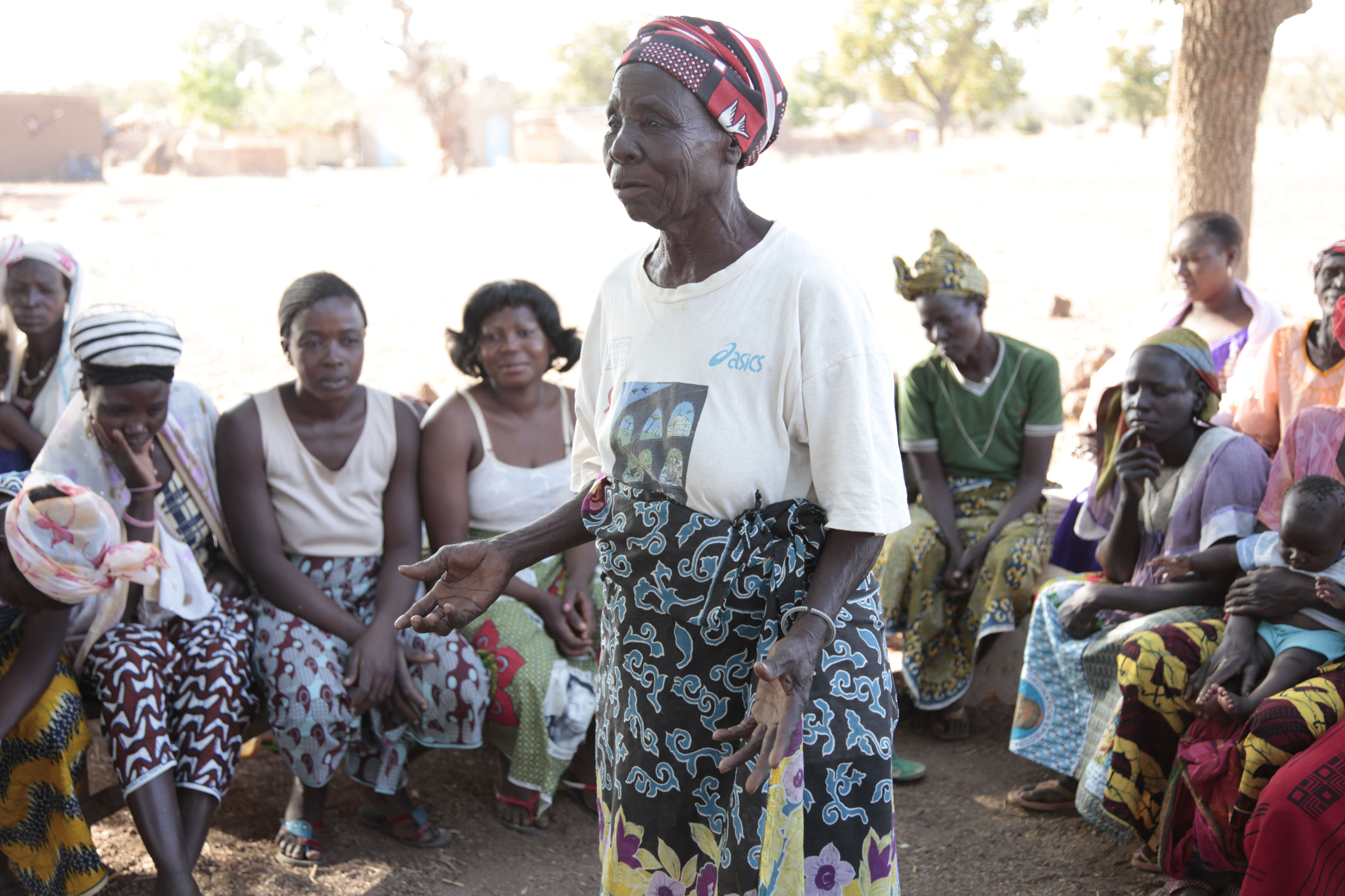 Awa is a traditional midwife. Here she’s telling her stories of childbirth at a community discussion about female genital mutilation/cutting (FGM/C). “When we heard there were no benefits to cutting from the peer educators, it reinforced what we already knew,” she says. “Women who are not cut deliver their babies more easily and simply. With those who’ve been cut – it’s just a matter of luck. Births are difficult and women tear regularly and rapidly.” The UK is working to reduce the practice of FGM/C by 30% in at least 10 countries in Africa in the next 5 years. Find out more about our work: bit.ly/1krV9Qk Take a stand. Pledge to end FGM, child marriage and forced marriage now: Picture: Jessica Lea/DFID (Name has been changed)